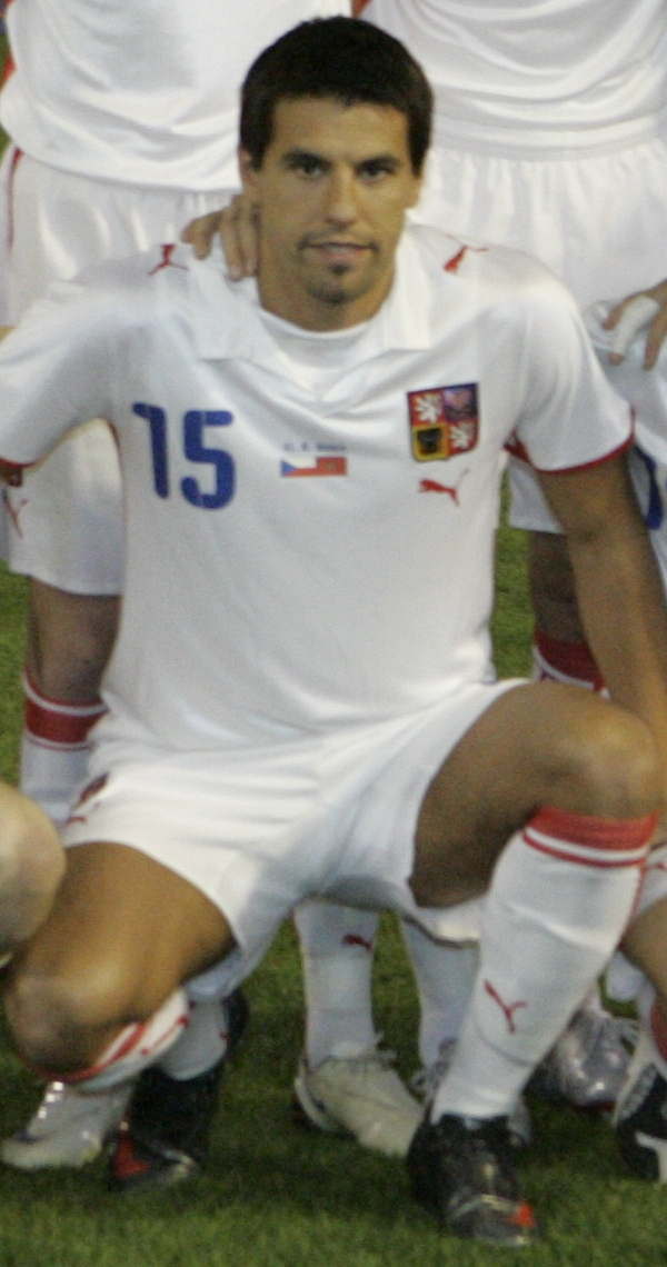 Milan Baroš (Czech Republic) before the friendly match against Morocco on February 11, 2009